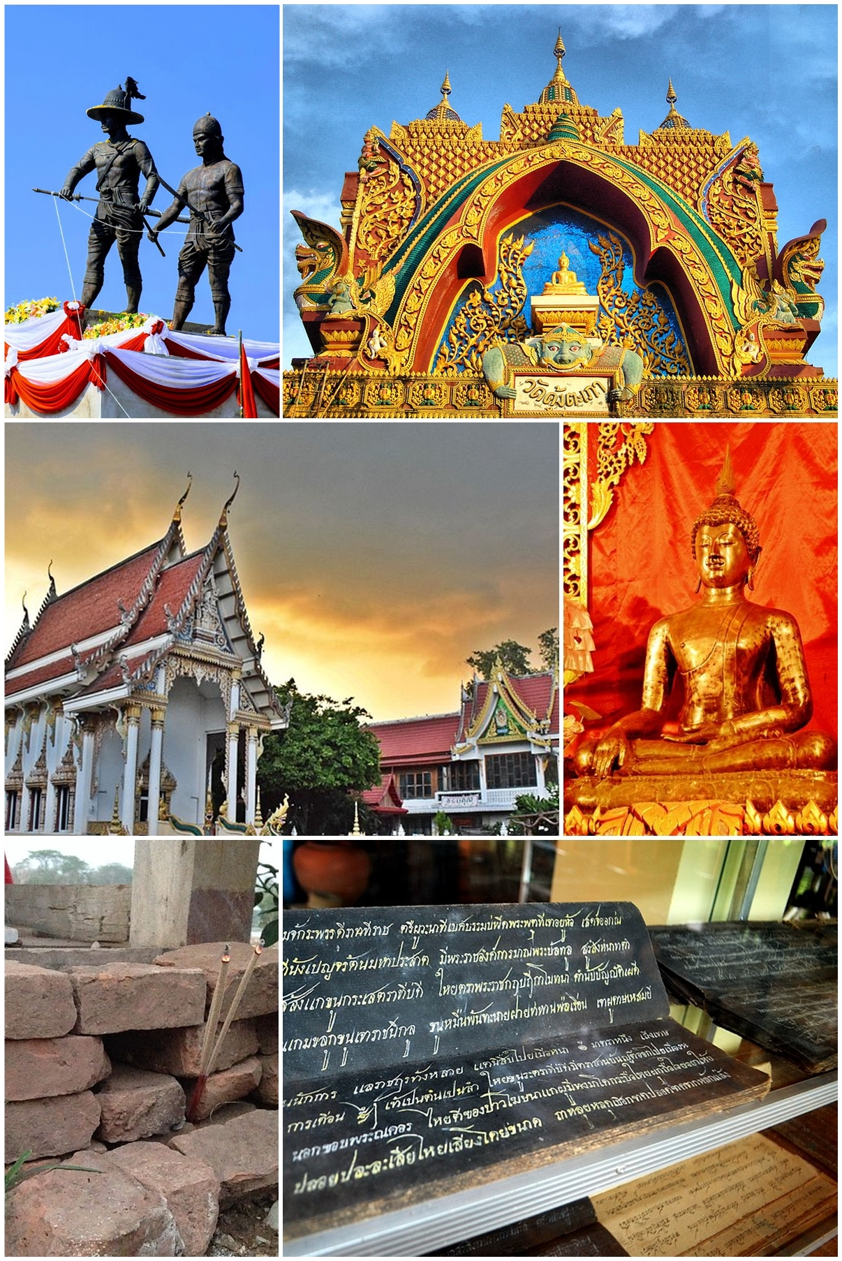 Montage of Wat Khung Taphao images on Commons.